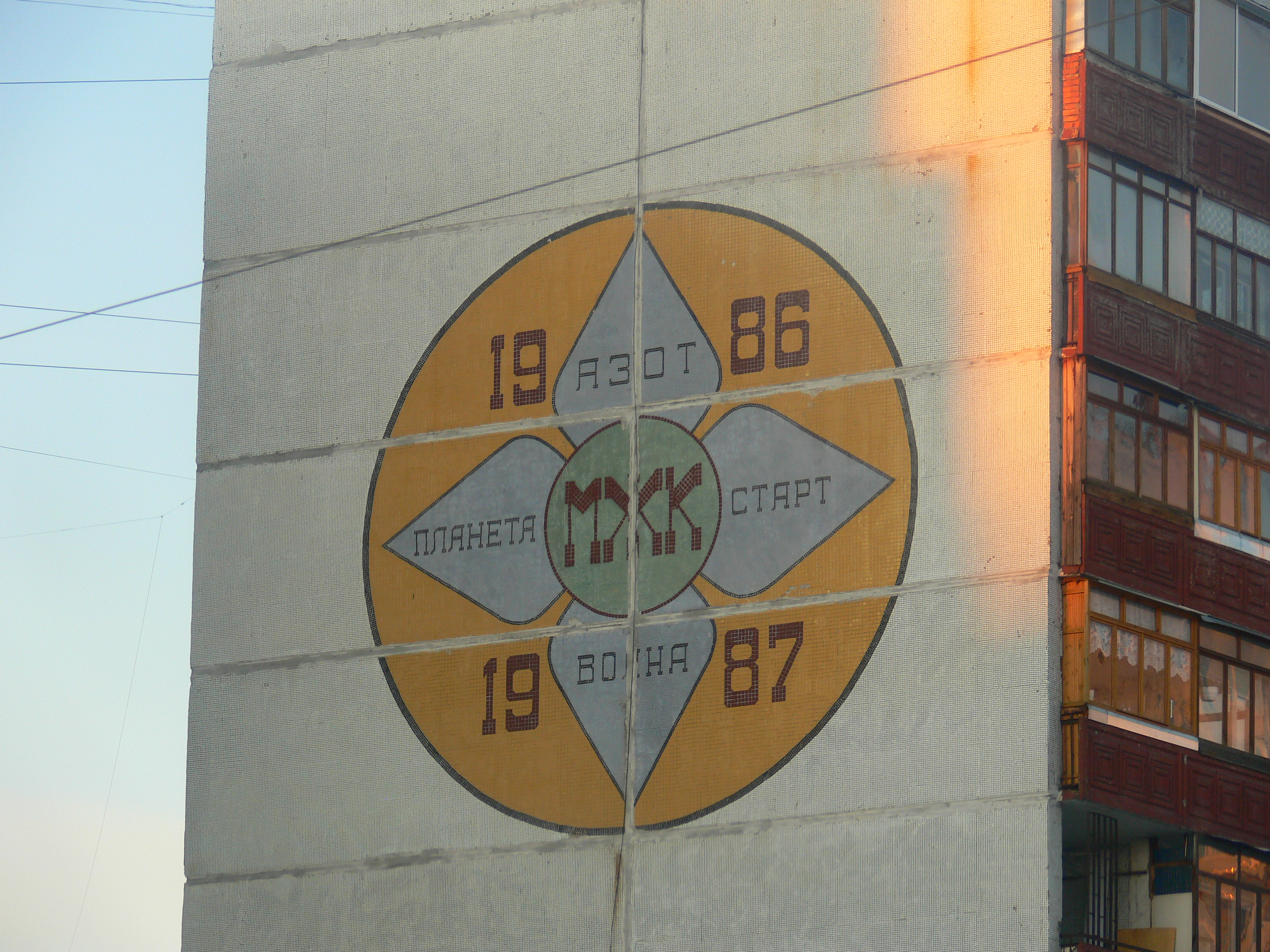 MJK house in Veliky Novgorod